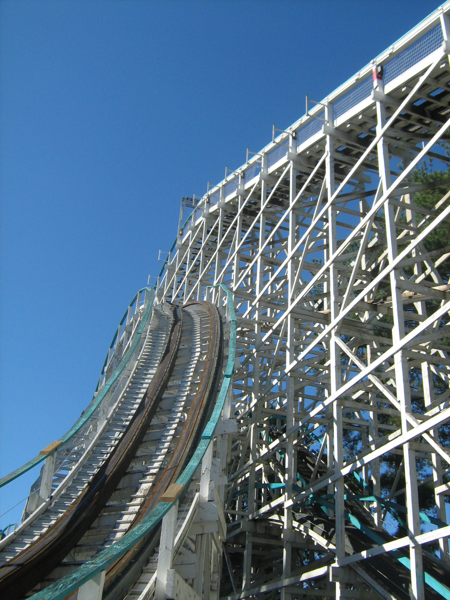 Georgia Cyclone roller coaster at Six Flags Over Georgia near Atlanta, Georgia